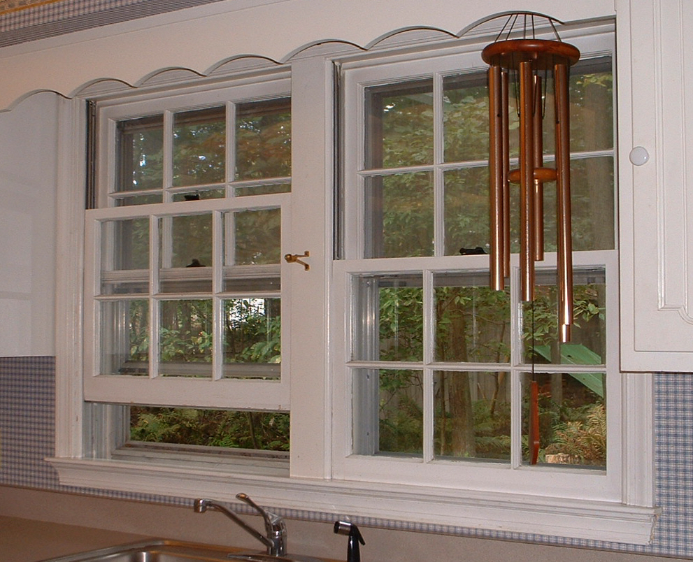 Kitchen Window (USA, built in around 1960), interior view